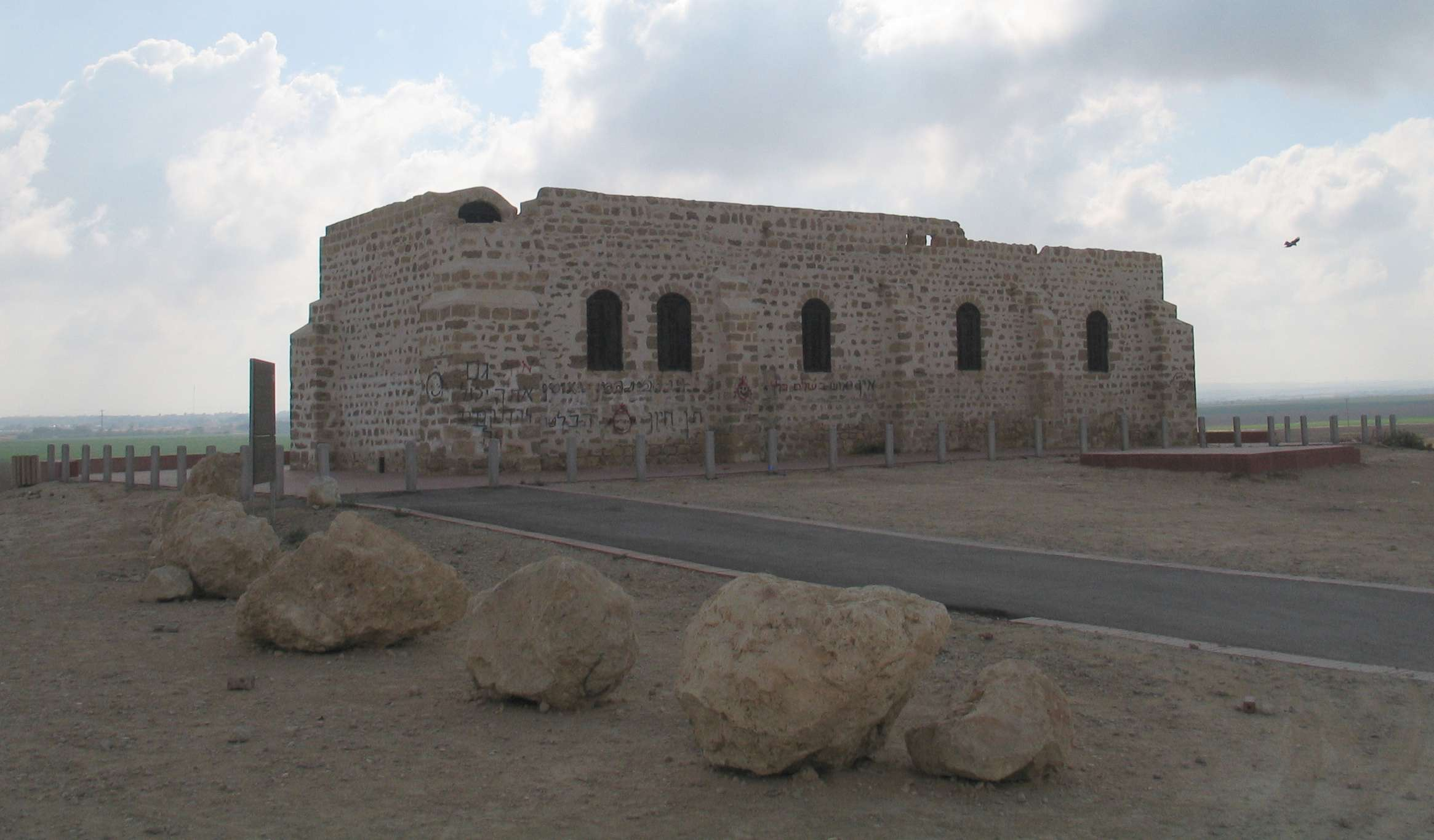 Patish fortress, Ofakim, Israel.